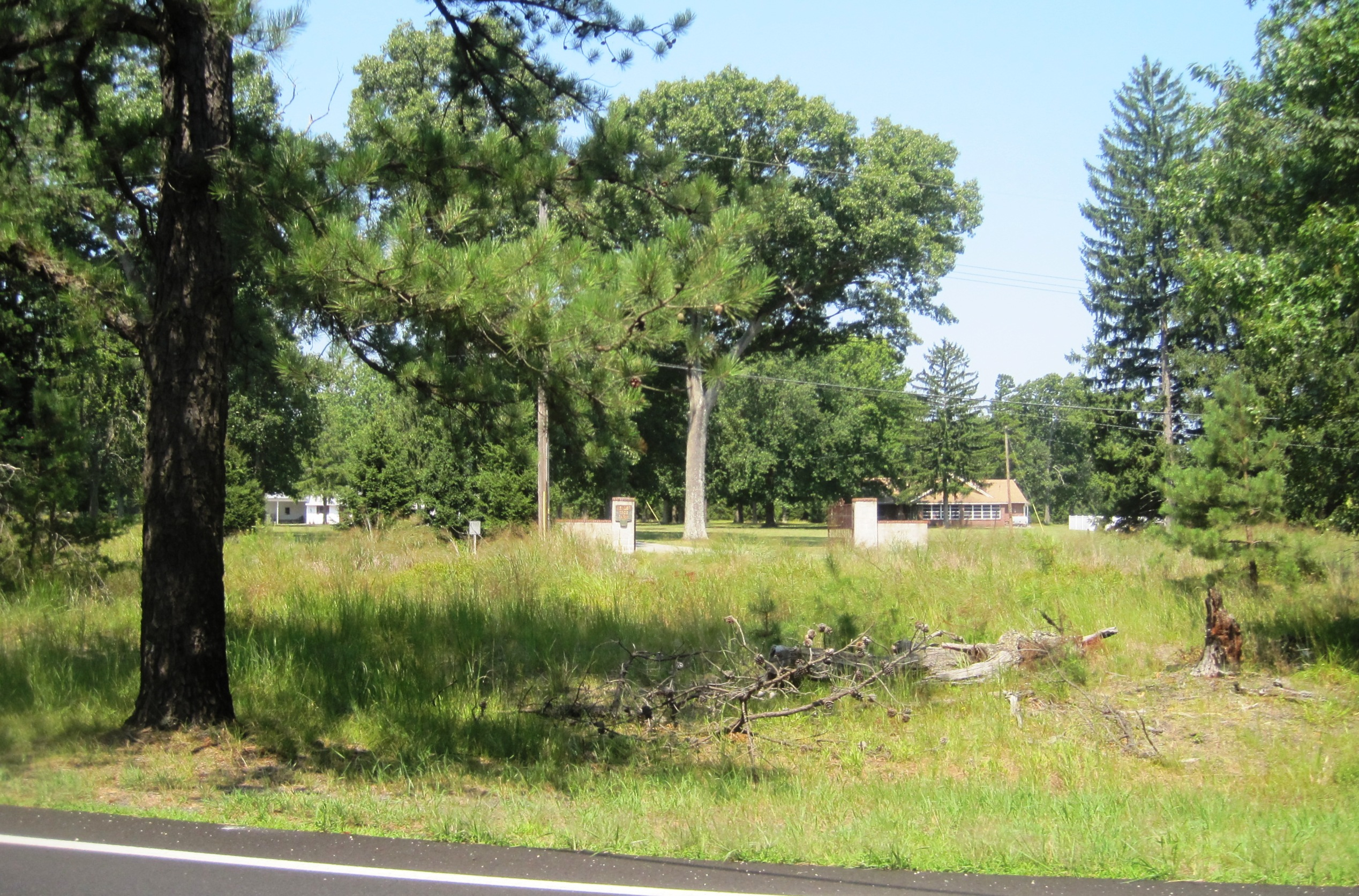 Photo showing Wheatland, New Jersey (also known as Pasadena), an unincorporated community within Manchester Township. Photo taken along Pasadena Road within the New Jersey Pine Barrens.